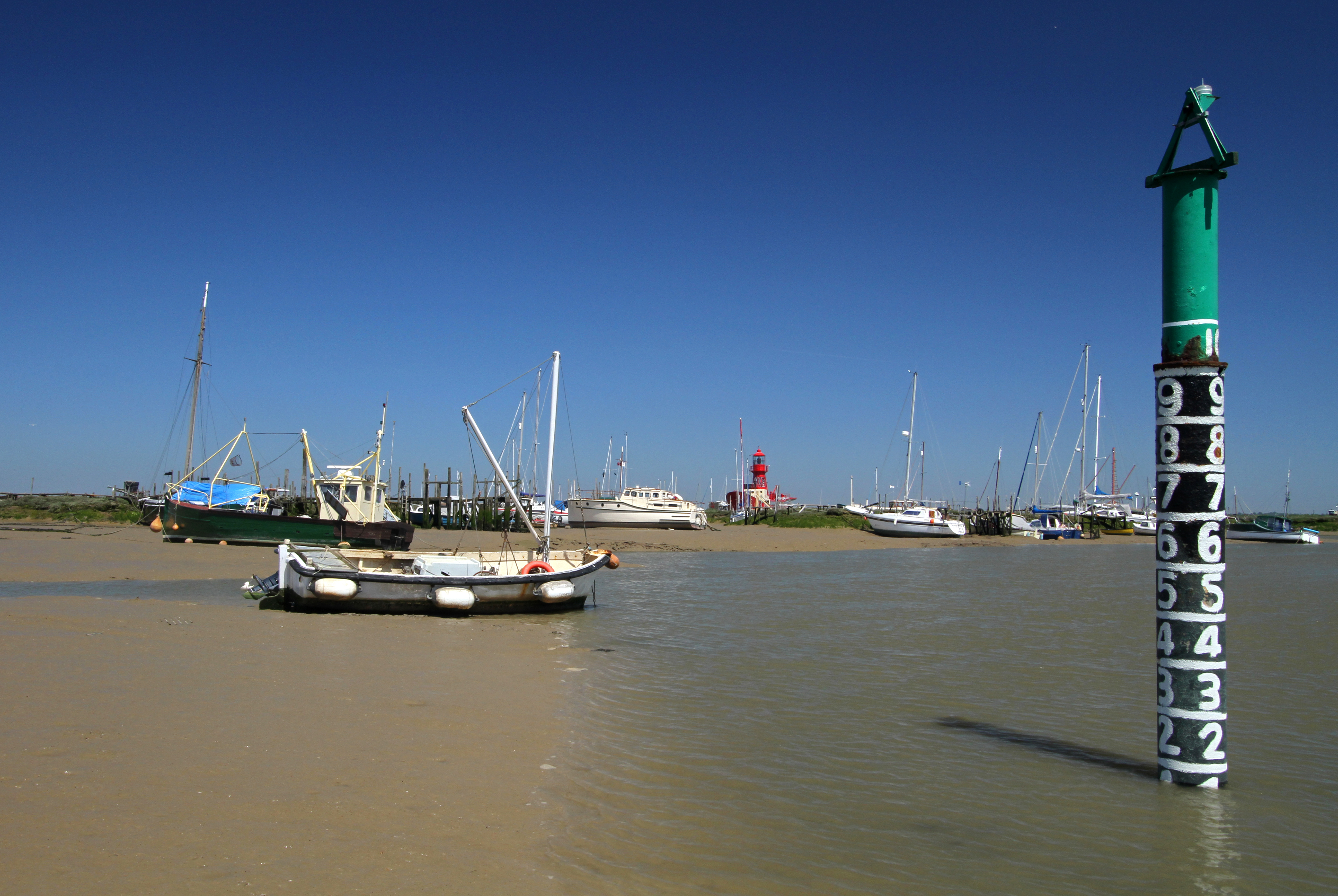 Tollesbury Marina 13